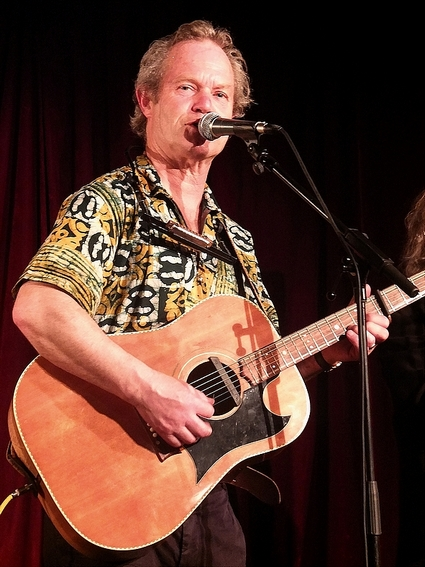 Live at "Au Camionneur", Strasbourg (France), 2nd May 2013